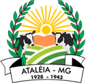 Coat of Arms of Alatéia, a municipality of the Brazilian state of Minas Gerais